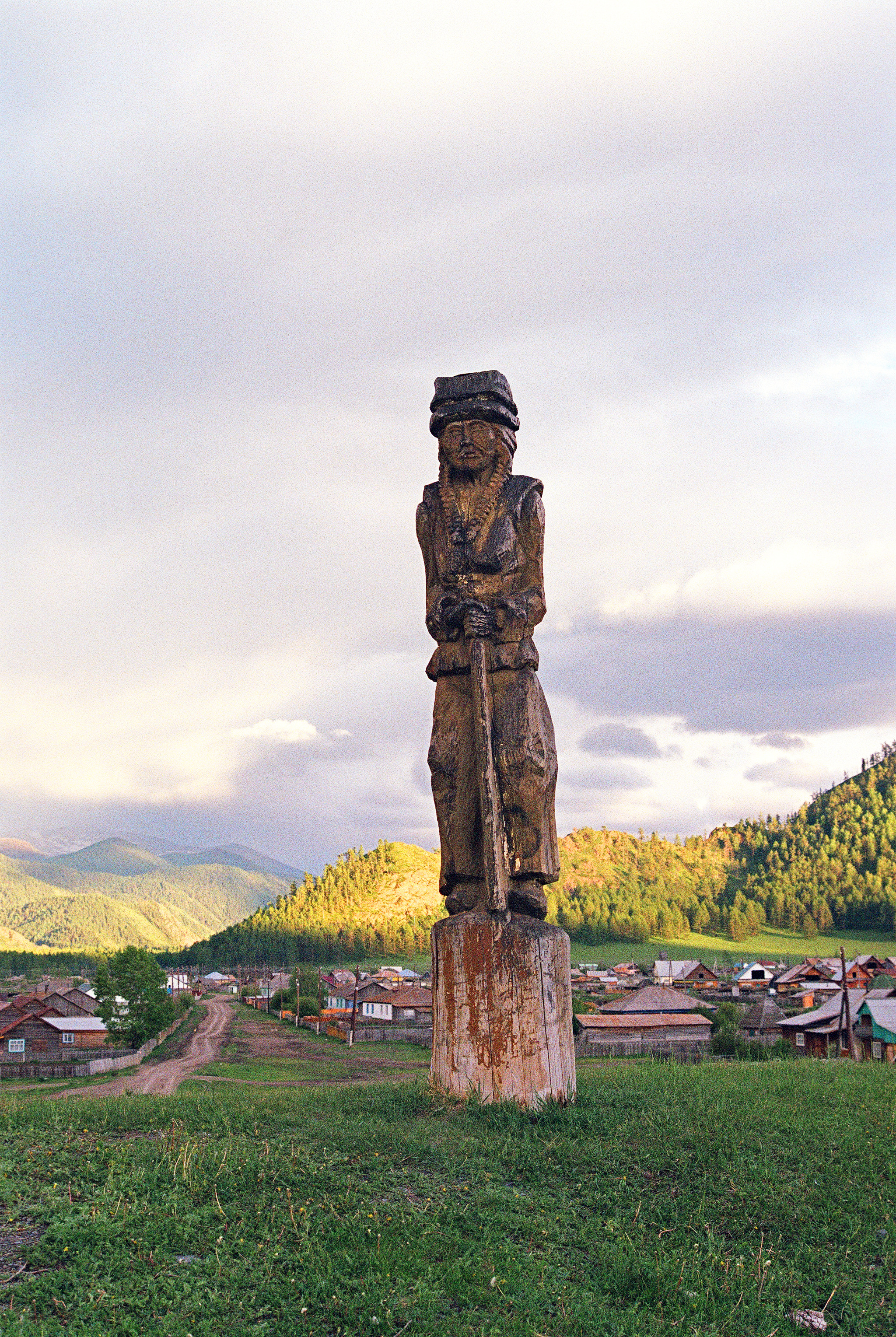 Kulada village